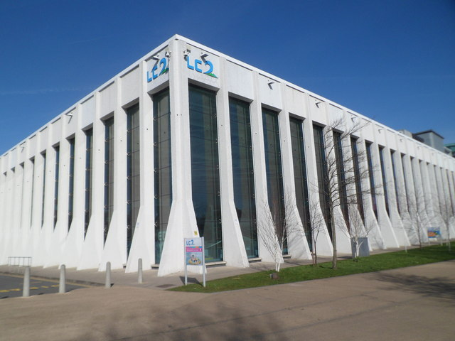 A corner of the LC building, Swansea, Wales